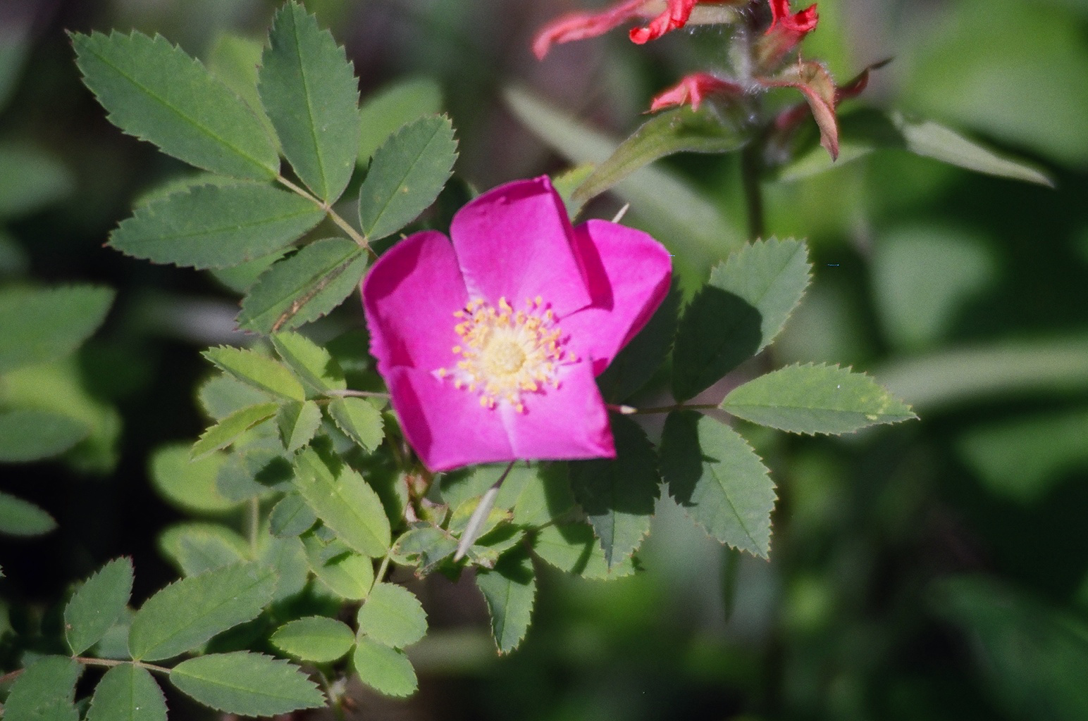 The province of Alberta's floral symbol, the Alberta wild rose (Rosa acicularis) is also known as the prickly rose. It grows in patches, from 20 to 120 cm tall, and blooms from June through August. It produces plentiful hips after flowering, which have both nutritional and medicinal purposes. The hips contain clusters of hard seeds, which themselves are of little nutritional value and if consumed, can result in a condition known as "itchy bottom." Rose hips make excellent wine, jelly, syrup, and tea, and are a good source of wintertime nutrition. 2004 D. Windrim Captioned As { }